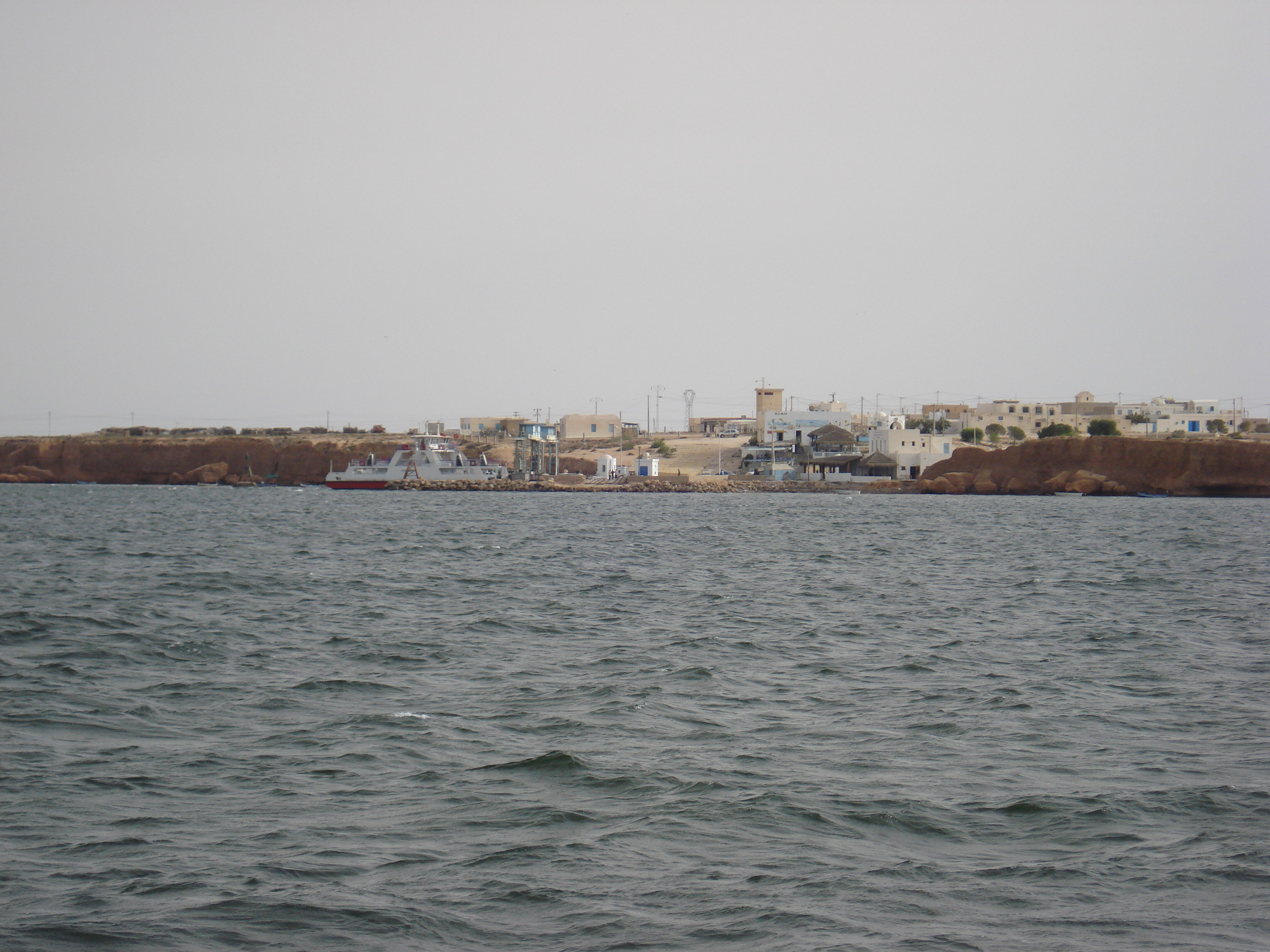 Jorf, Tunisia.